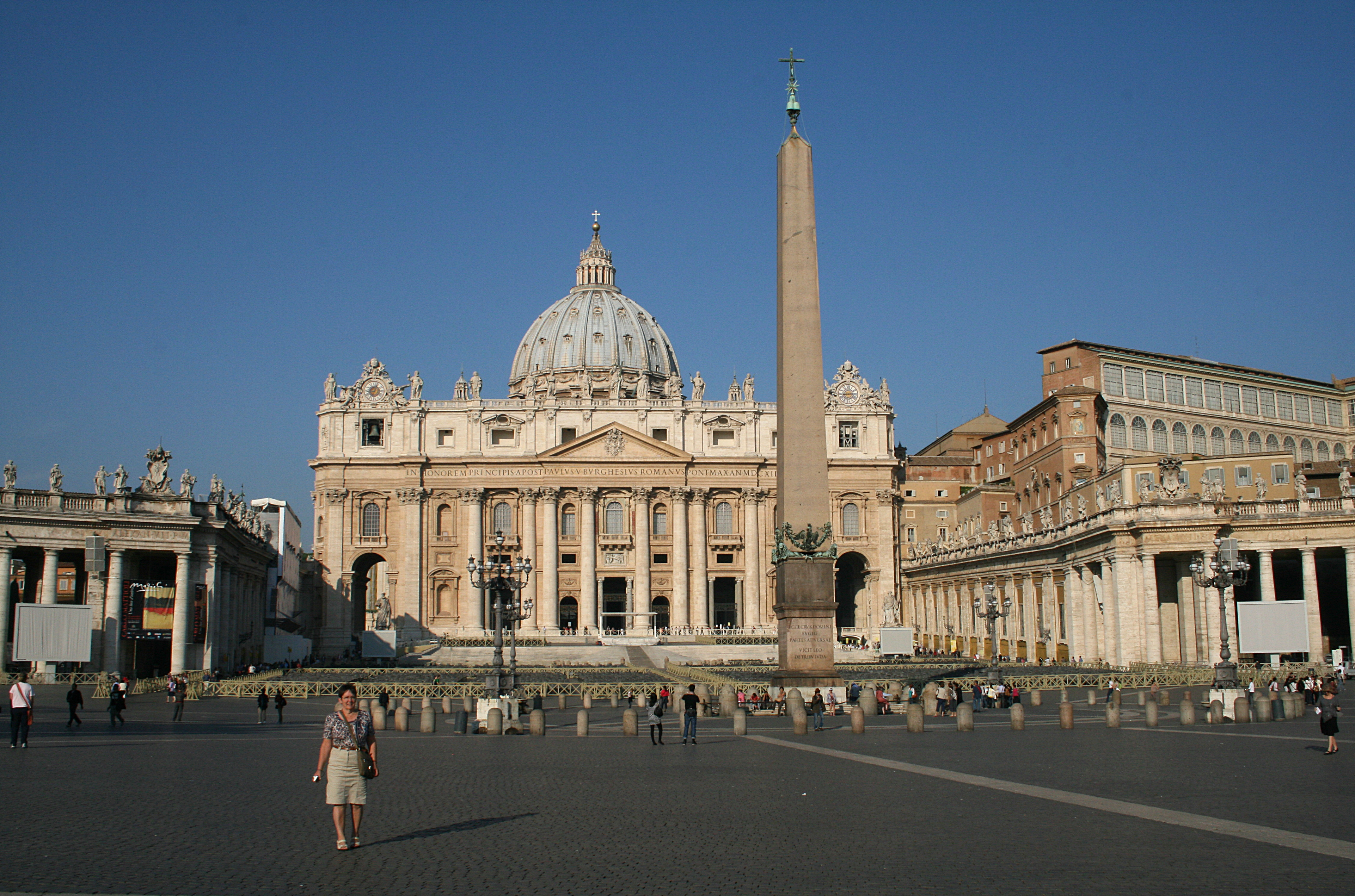 The St. Peter's Square before the St. Peter's Basilica and the Vatican Obelisk.